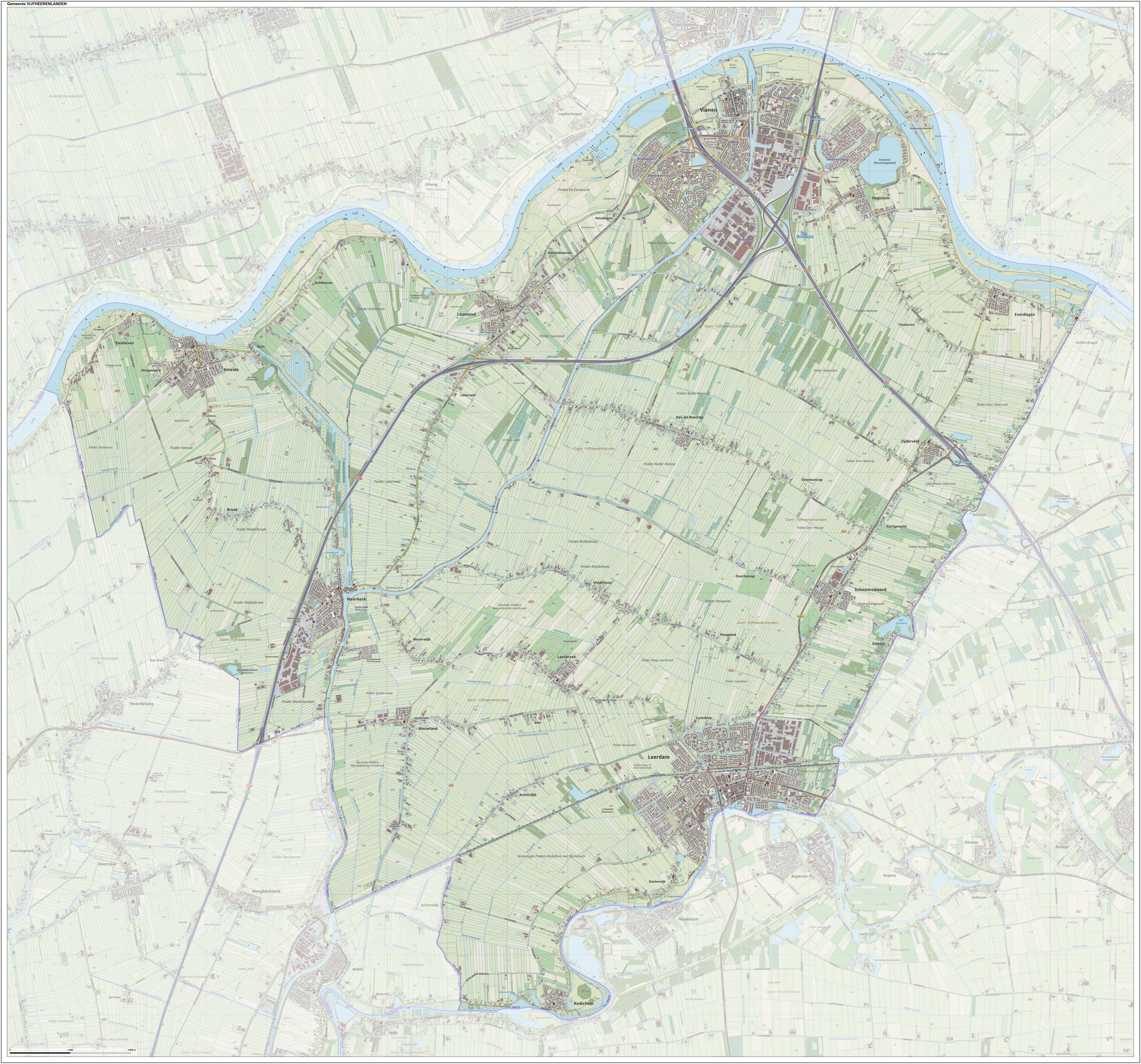 Topographic map of the upcoming municipality. Compiled by Jan-Willem van Aalst using open data from the Dutch Government collection of Geodata, plus OpenStreetMap, CC-BY OSM contributors.